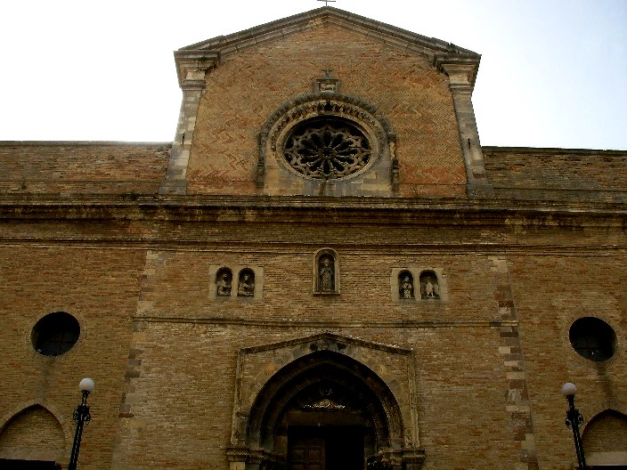 The façade of the cathedral of St. Leucio to Atessa